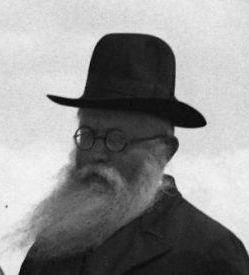 Rabbis of Russia and Mr. Caspi at Talpiot neighborhood of Jerusalem.